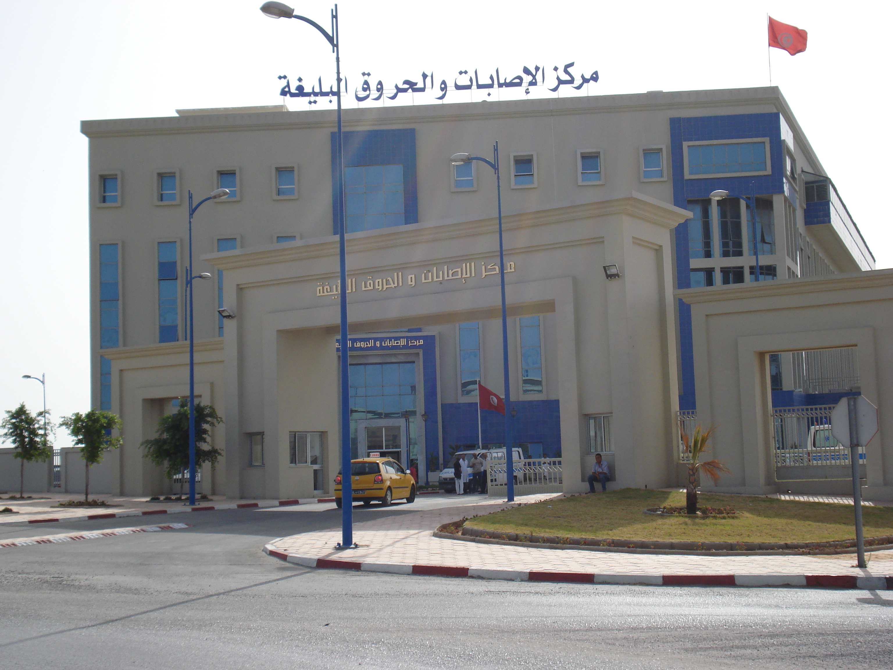 Burn and Trauma Centre, Ben Arous